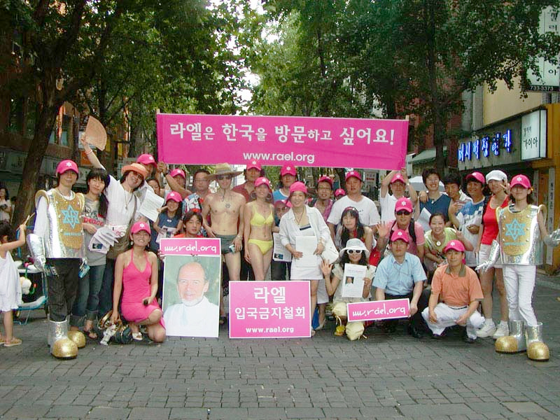 Image Specific: 5 Aug 2006 Insa-dong Seoul Korea "Rael wants to visit Korea!"